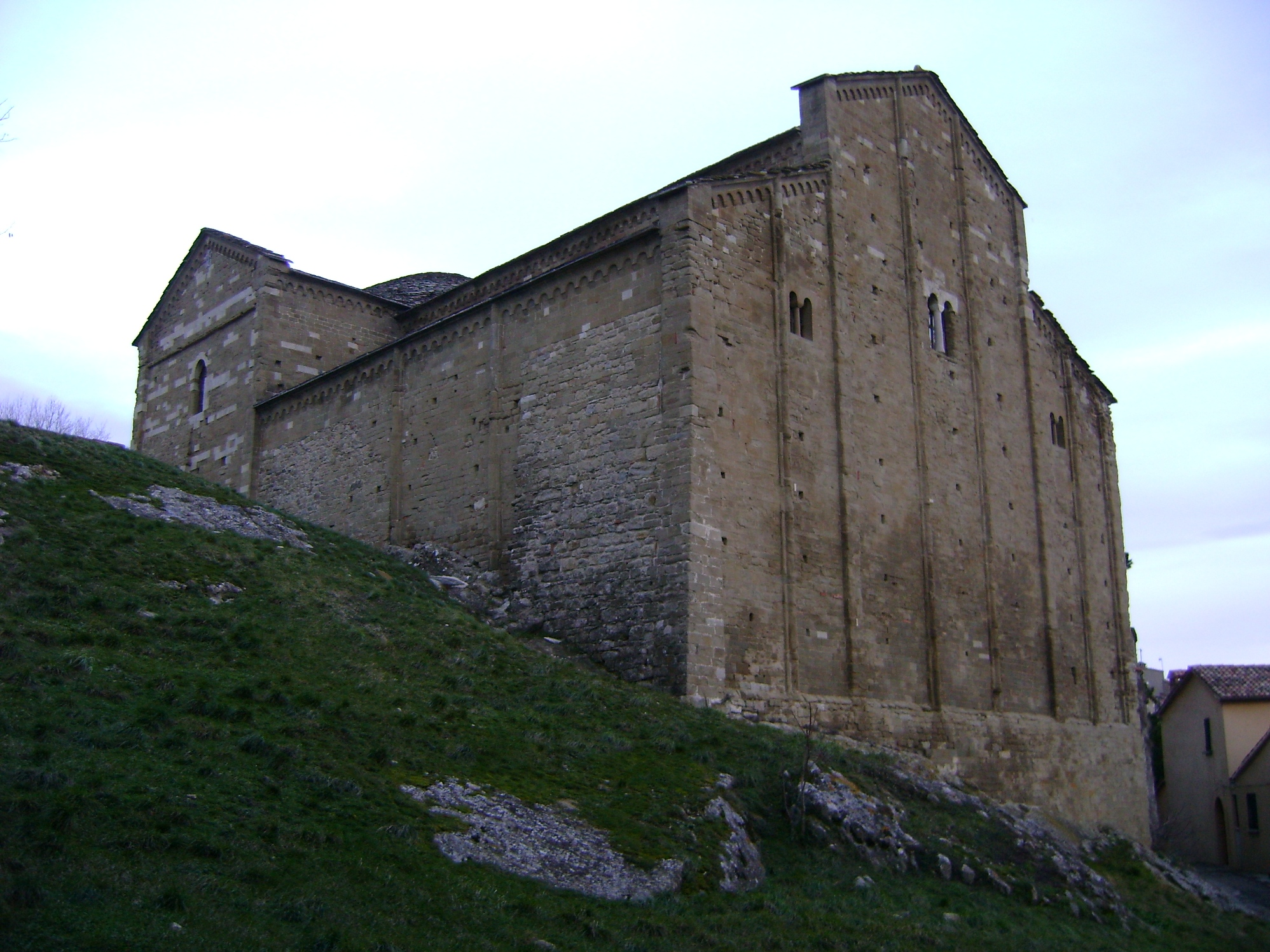 The Cathedral of St. Leo, in San Leo, province of Rimini, Emilia-Romagna